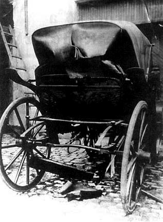 The carriage of Ramón Lorenzo Falcón after the bombing.